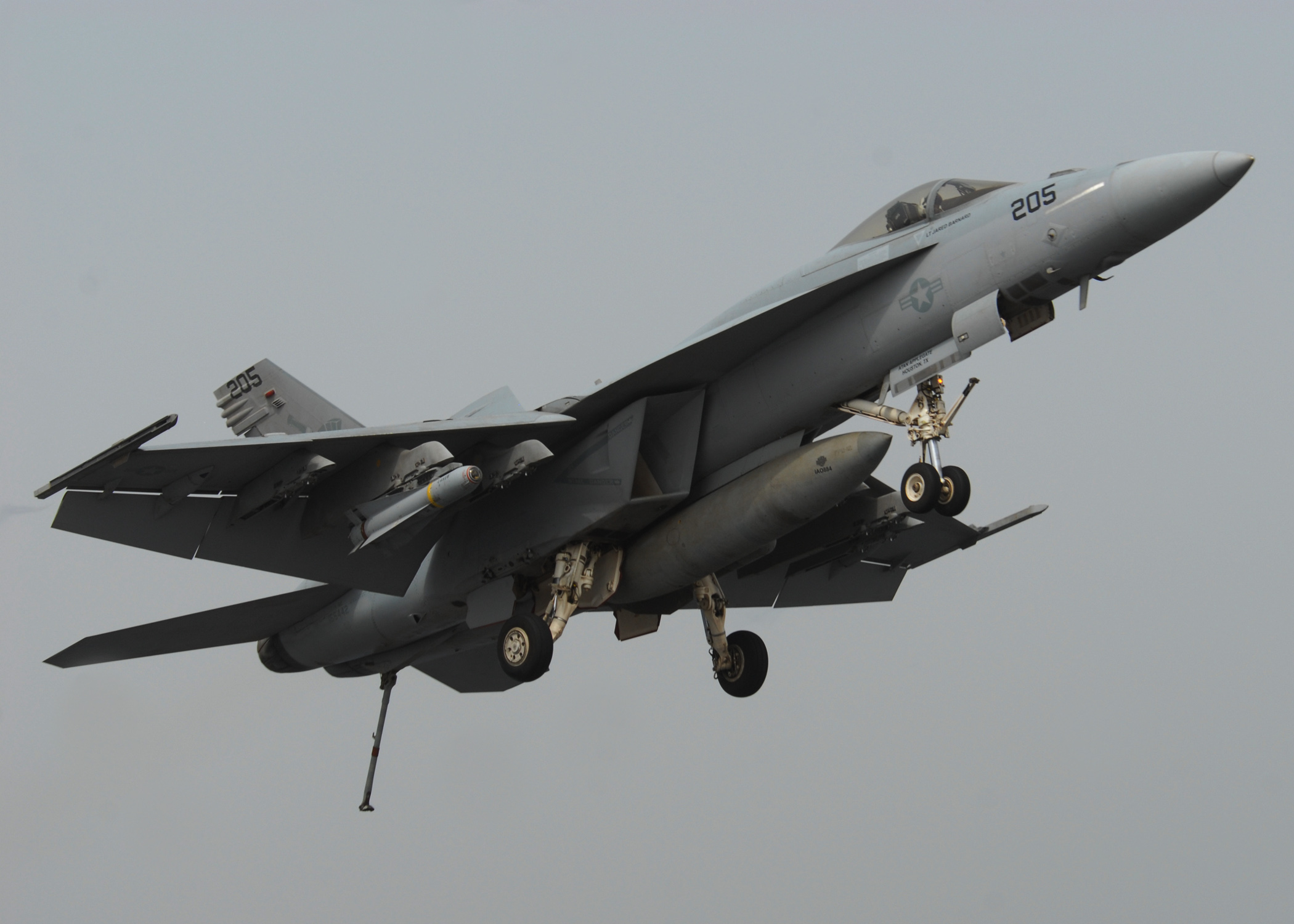 GULF OF ADEN (July 18, 2011) An F/A-18E Super Hornet assigned to the Argonauts of Strike Fighter Squadron (VFA) 147 prepares to land aboard the aircraft carrier USS Ronald Reagan (CVN 76). Ronald Reagan is conducting operations supporting maritime security operations and theater security cooperation efforts in the U.S. 5th Fleet area of responsibility. (U.S. Navy photo by Mass Communication Specialist 2nd Class Josh Cassatt/Released)